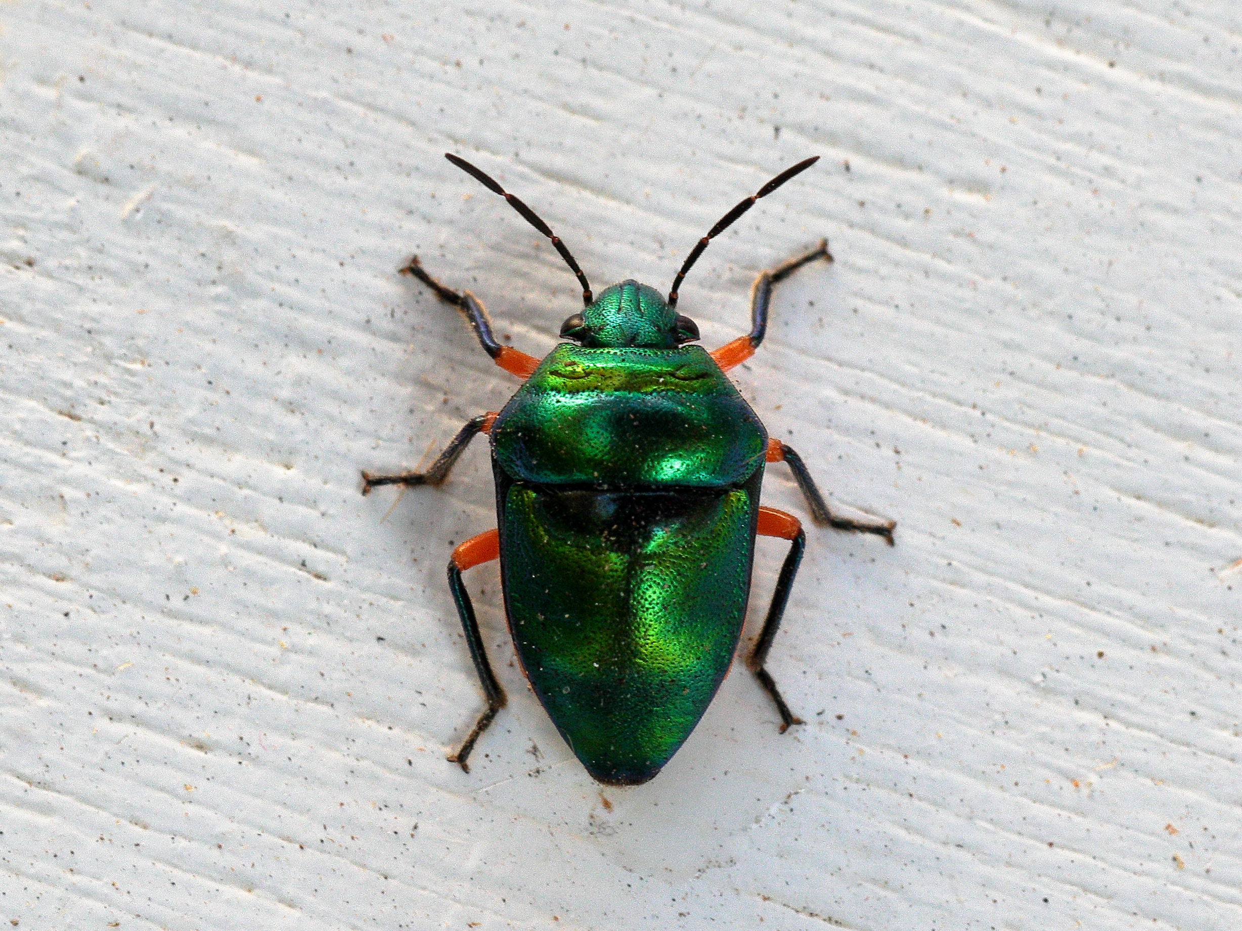 Green Jewel Bug (Lampromicra senator) in Cairns, Queensland, Australia.